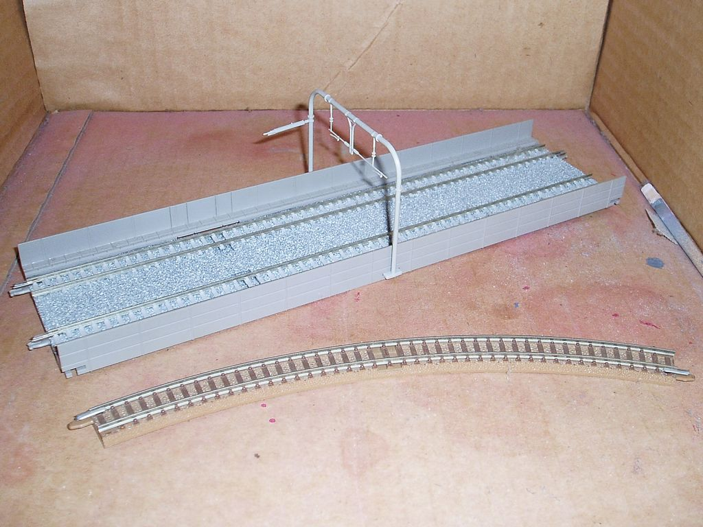 Rail for model train set of TOMIX product